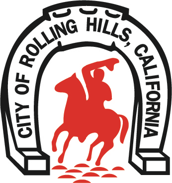 Municipal seal of the city of Rolling Hills, California.